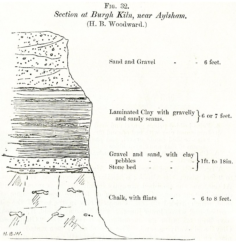 Geological Section at Burgh Kiln quarry, Norfolk, UK, c.1880. From Reid, C (1890). The Pliocene Deposits of Britain. Memoirs of the Geological Survey of the United Kingdom; page 130.